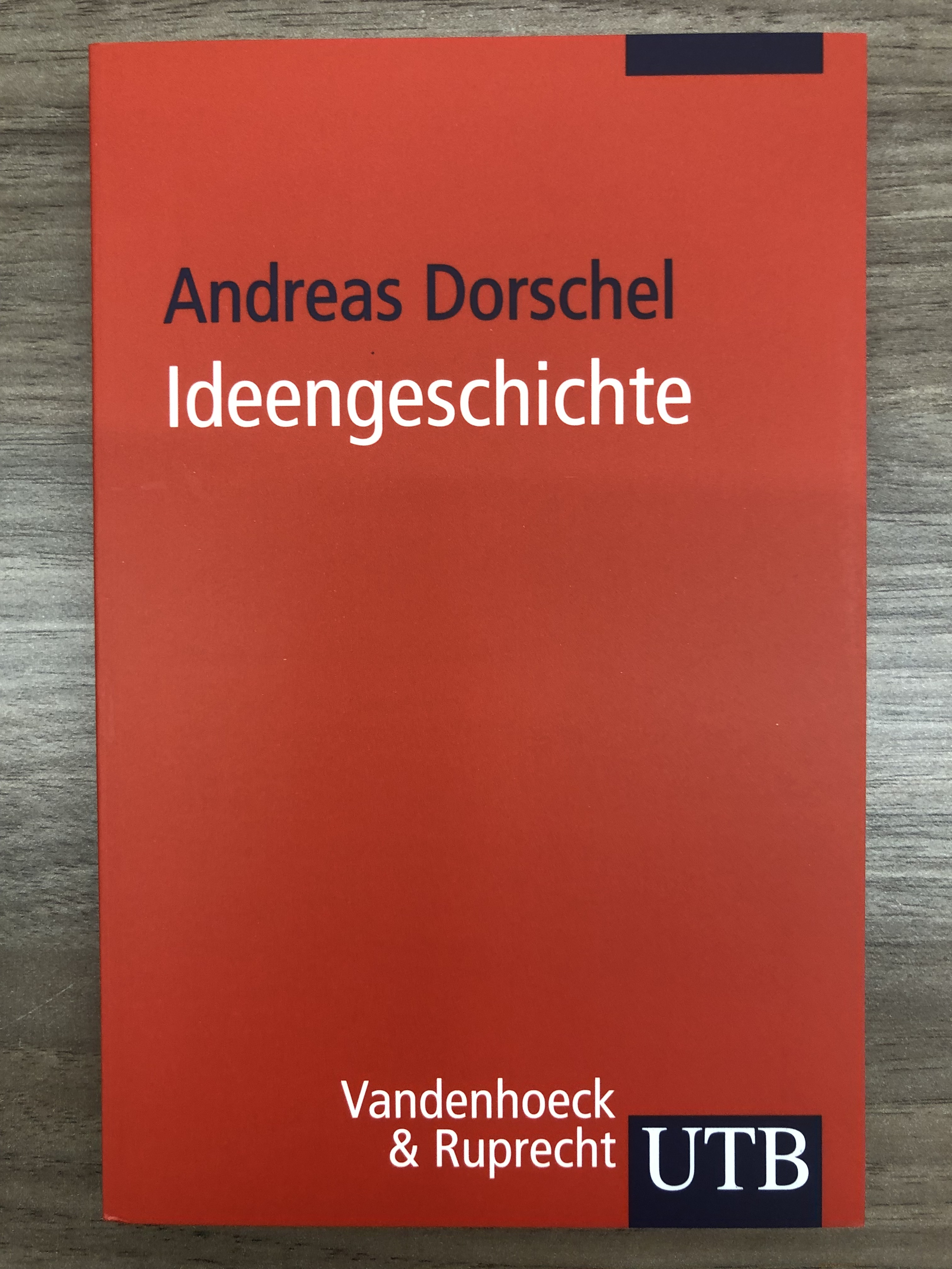 Andreas Dorschel, Ideengeschichte (2010)